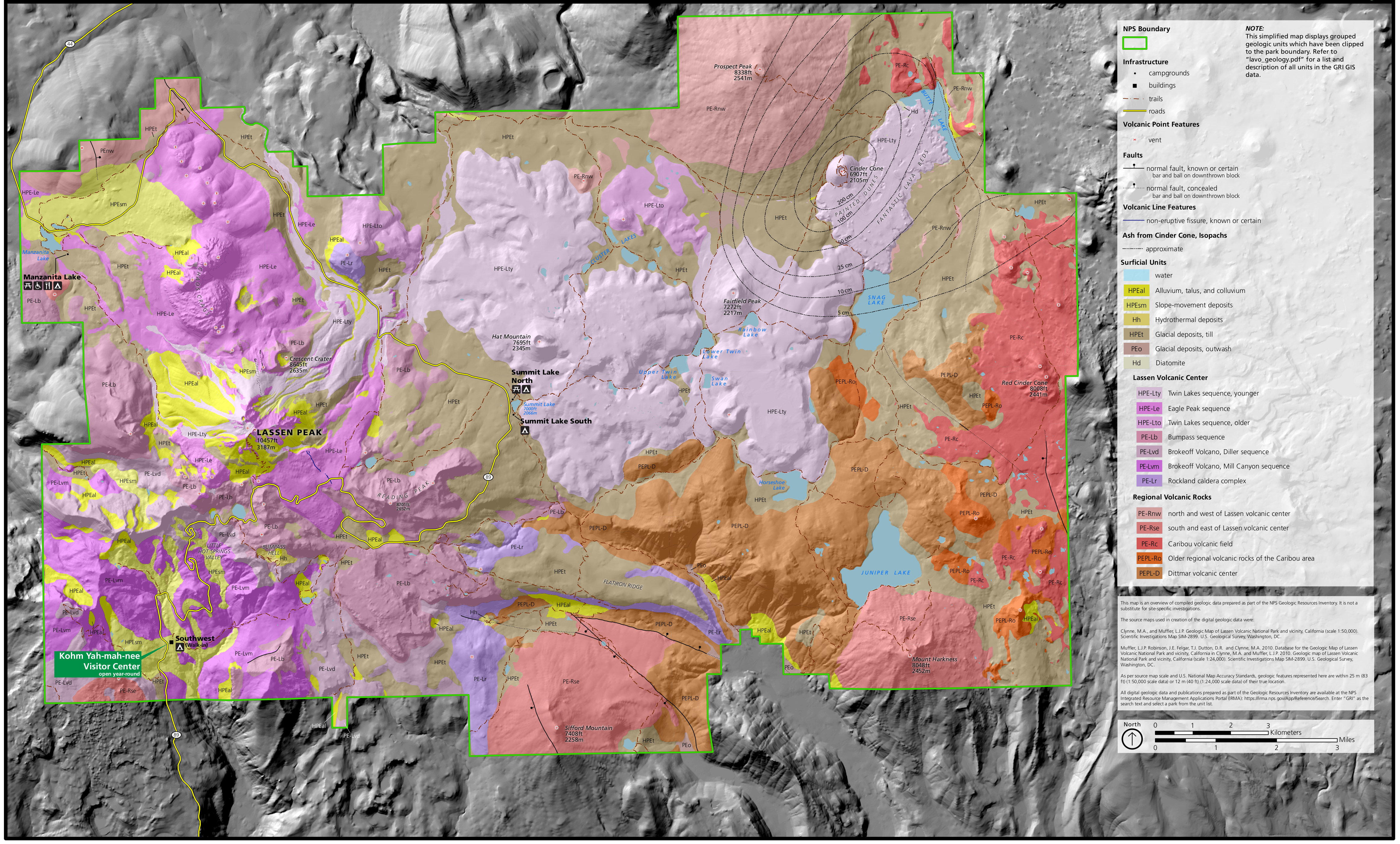 Lassen geologic map, showing both the recent volcanic surficial deposits as well as some of the older bedrock near Lassen Peak, overlaid on a shaded terrain view of the national park.